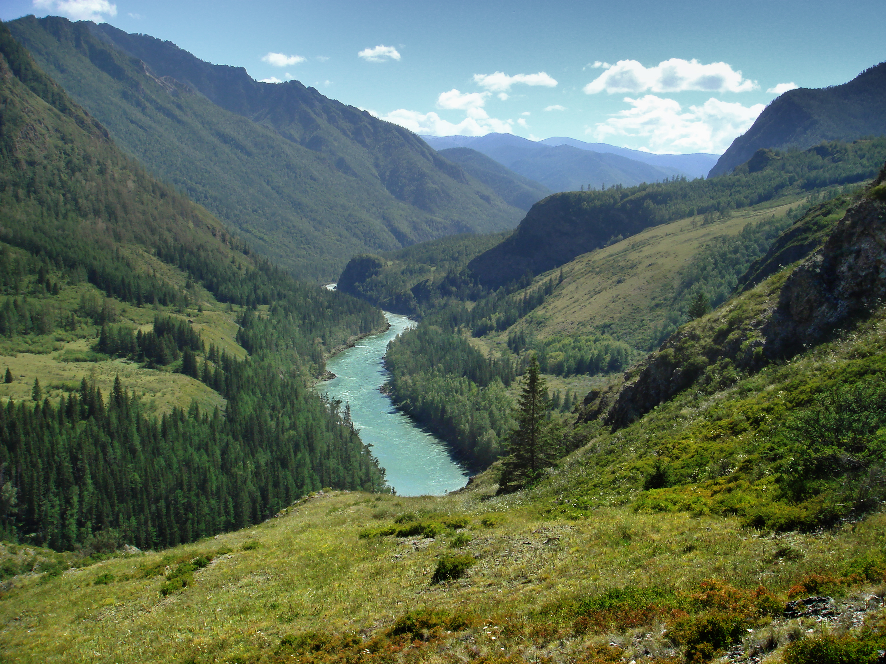 Katun river (Altay Republic, Russia).